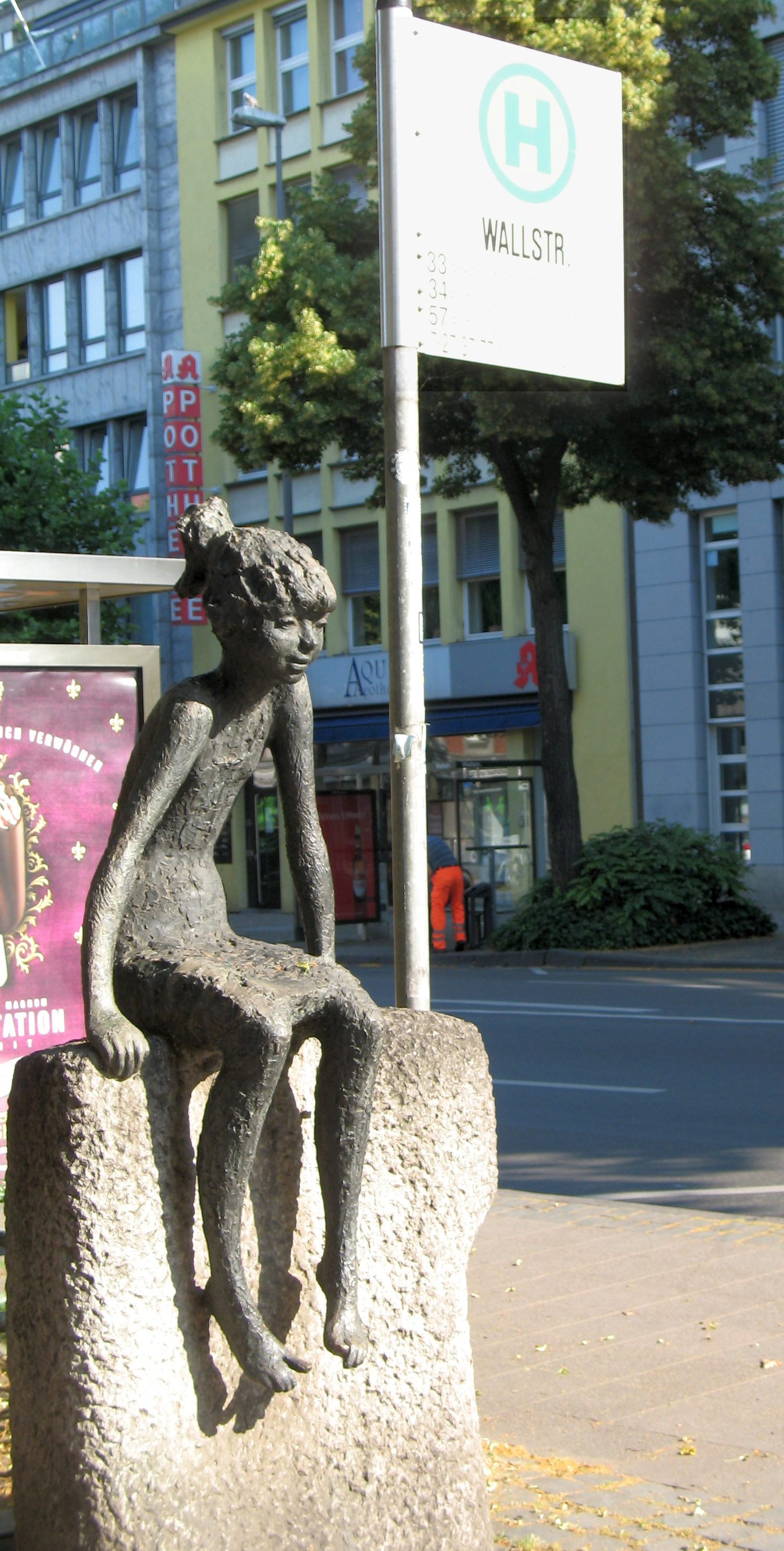 Bronze statue "Girl on a wall" by Clemens Pasch in Aachen; created 1978, installed in 1979